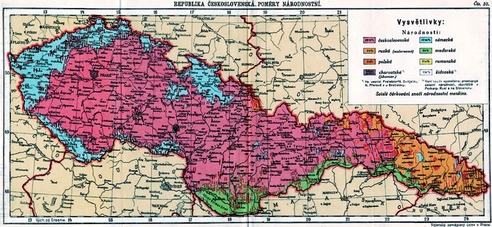 Map of the Czechoslovak Republic (1918-1945). Map of nationalities.